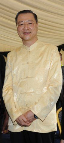 Master Lu